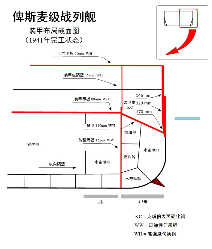 The arrangement of armor and protective layers on Bismarck-class battleships around the boilerrooms. Additional Info obtained from: US Navy TMJ report S-01-9 "Characteristics of Japanese Naval Vessels - Underwater Protection" US Navy TME report 227-45 "Underwater Explosion research in the German navy" Koop / Schmolke: "Die Schlachtschiffe der Bismarck-Klasse", 1990, Bernard & Graefe, ISBN 3763758909